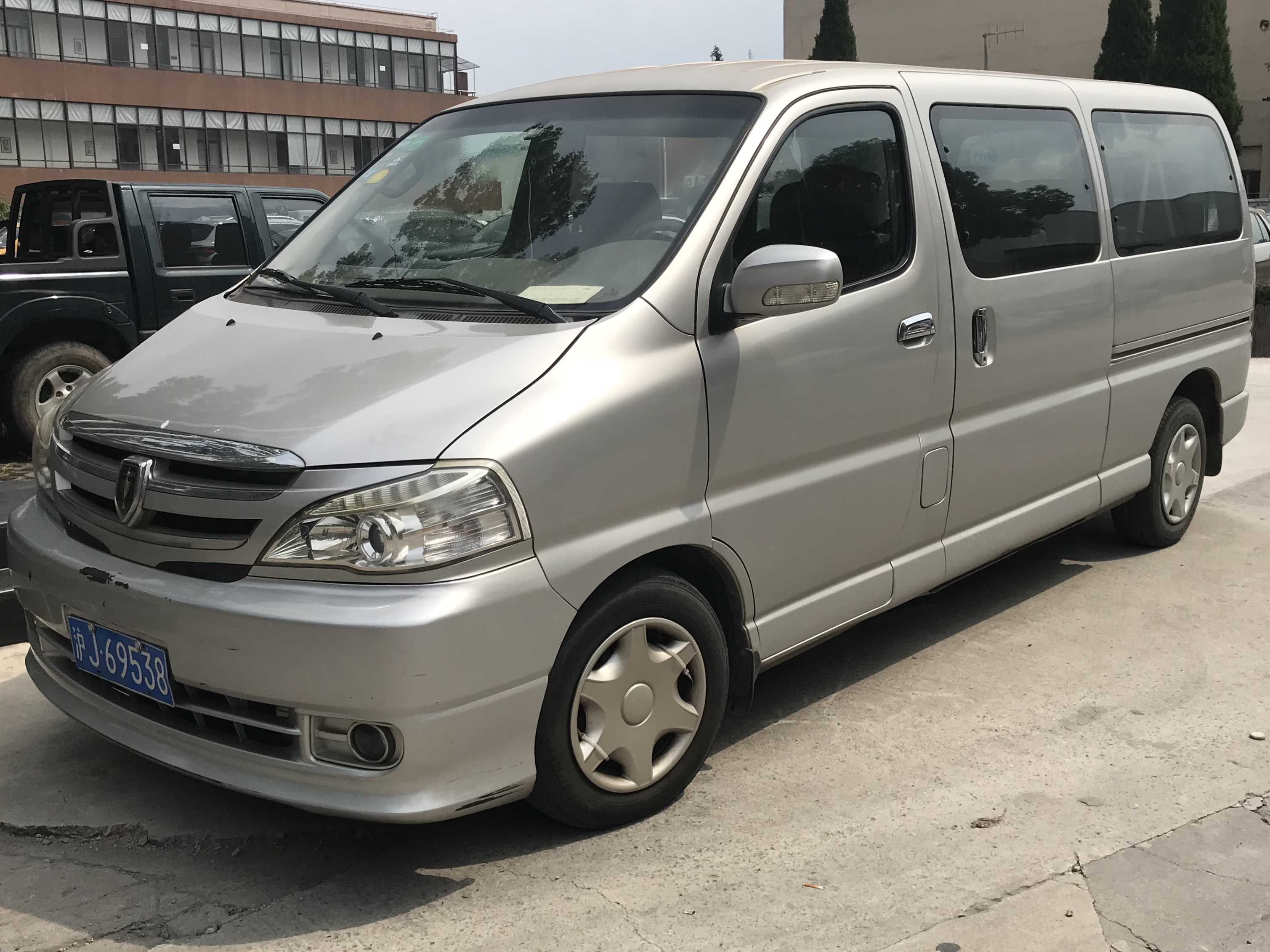 Jinbei Granse facelift